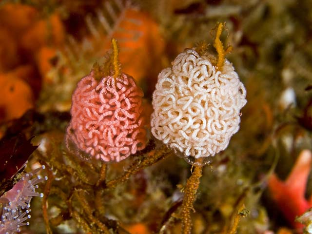 Found at Star Wall near Hout Bay on the Atlantic Coast of the Cape Peninsula in 20m of water. Used an Olympus E-3 with a 50mm macro lens.